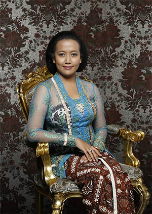 Her Royal Highness Princess Hayu, Official Picture prior to her wedding.